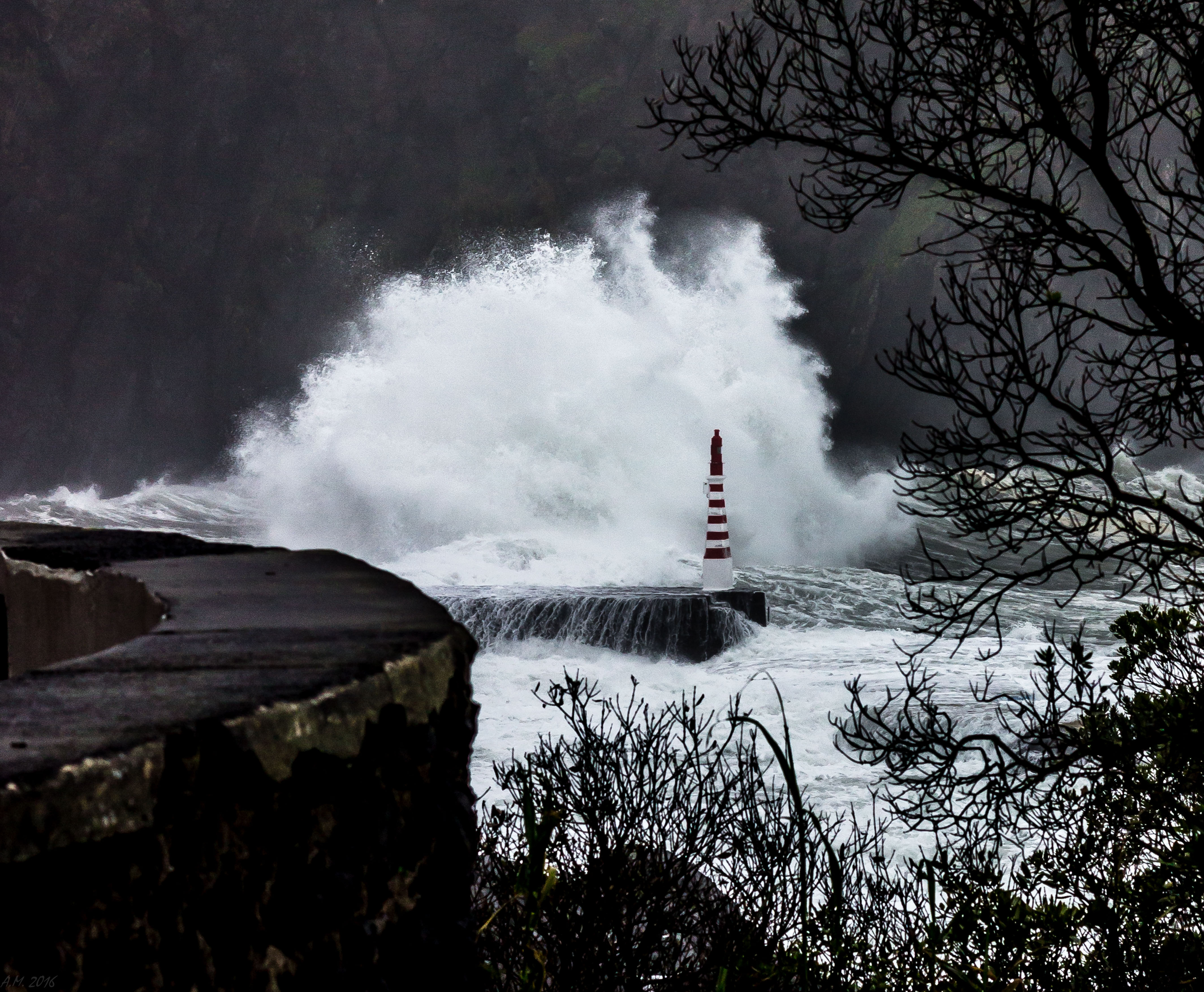 Last waves of the hurricane Alex that passed last night over the Azores (crop). Caloura - S Miguel, Azores 2016